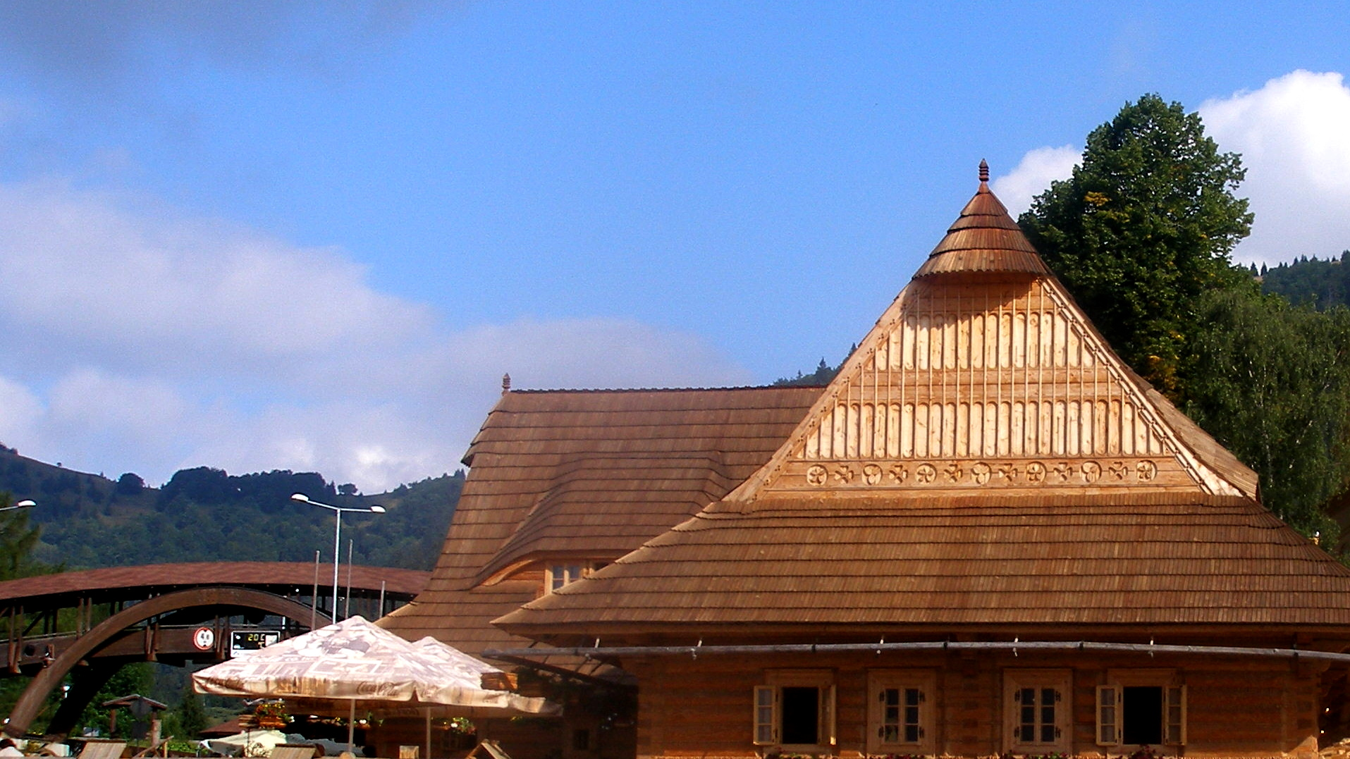 Donovaly Ski centrum